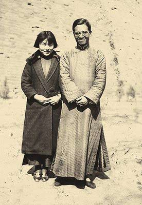 In 1934,Yang Jiang and Qian Zhongshu in Beiping.